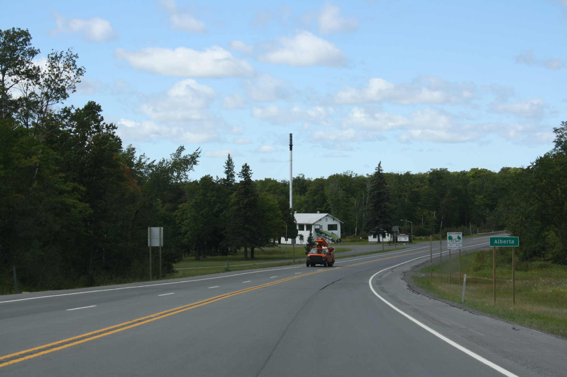 The sign for Alberta, Michigan, Wisconsin along U.S. Route 41.